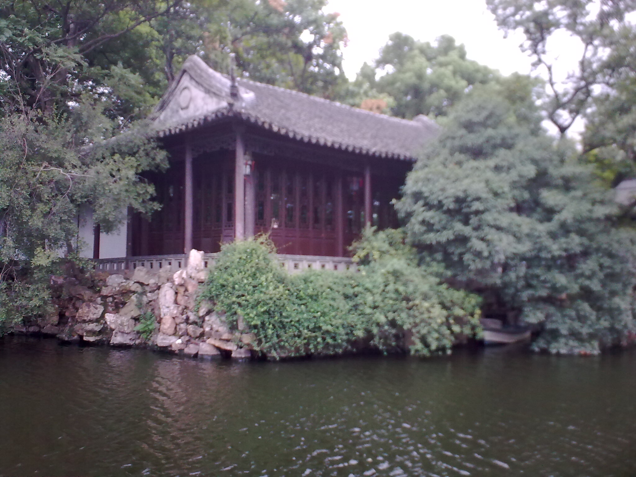 Great Wave Pavilion UNESCO Garden